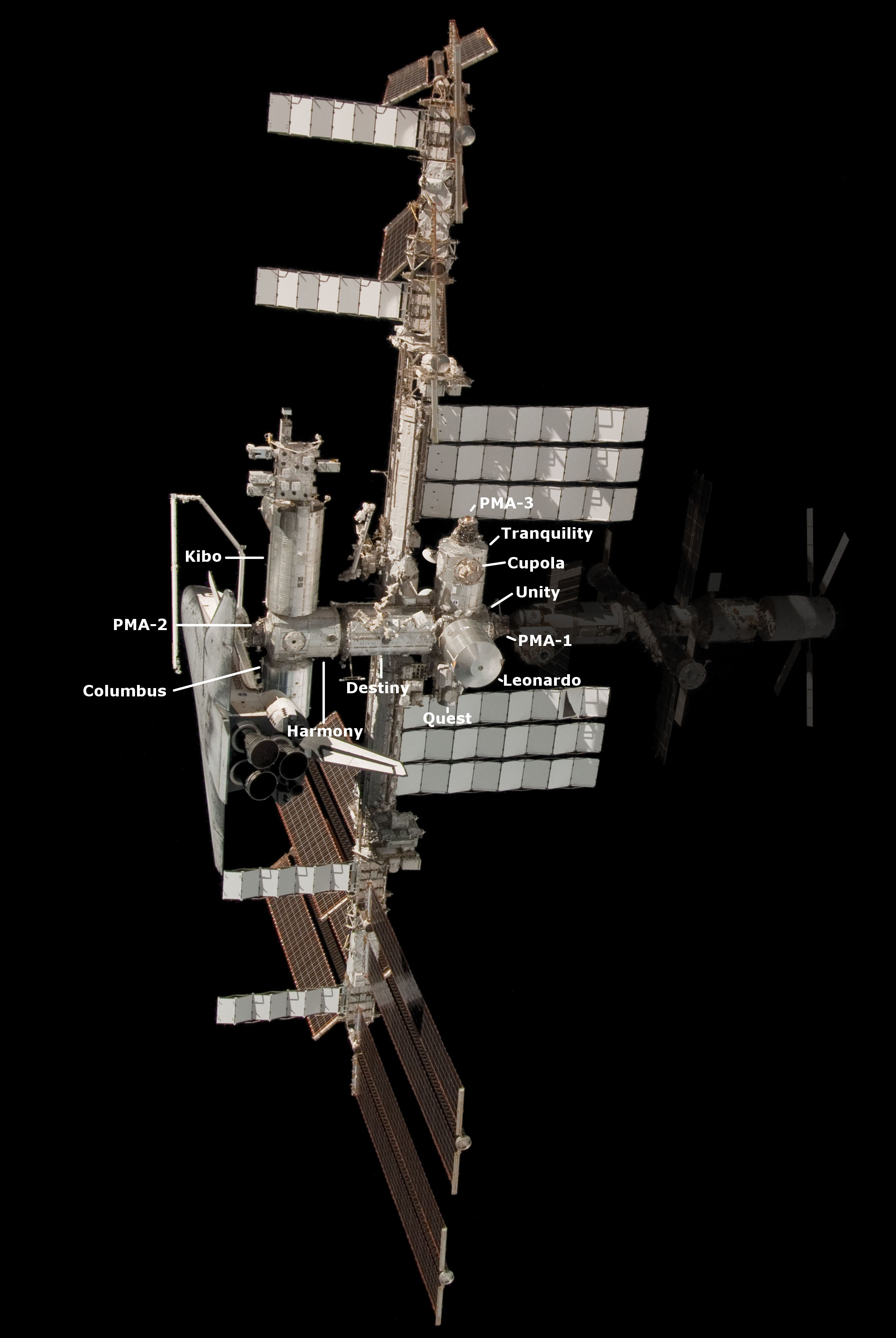 Heavily modified image. The Russian Orbital Segment has been darkened.